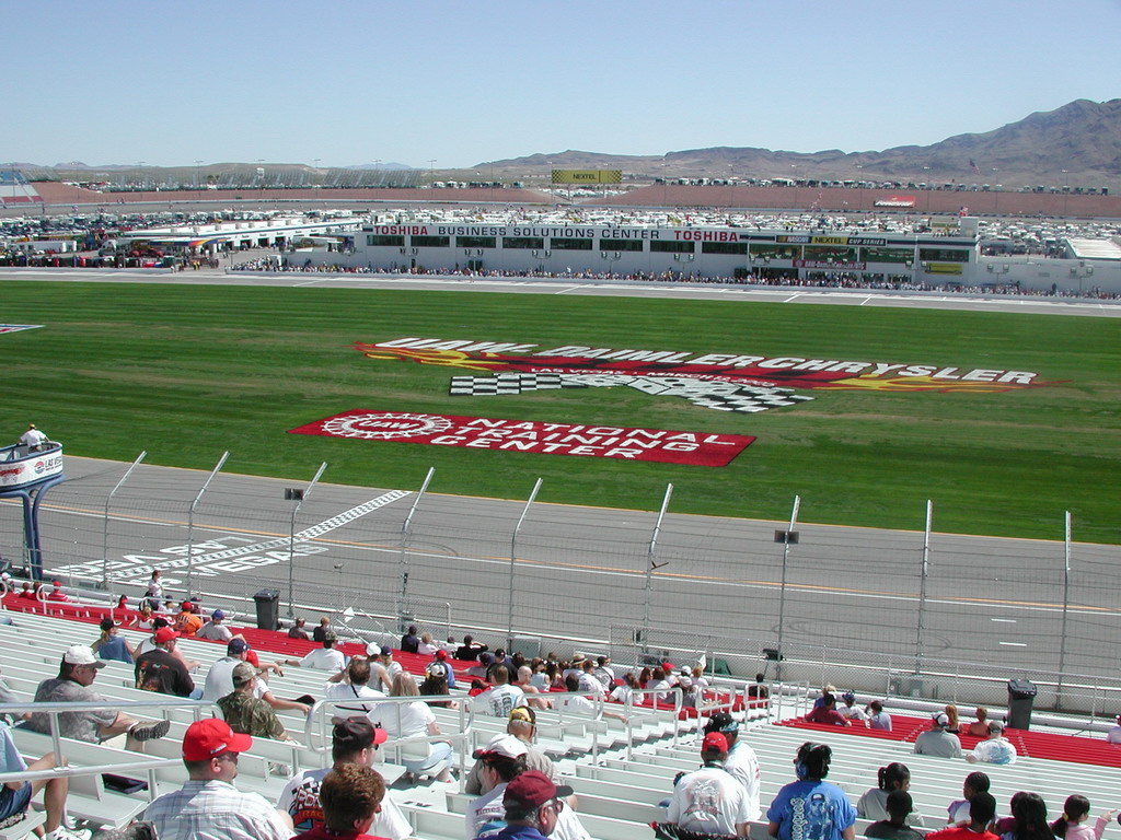 Nascar, Las Vegas. Qualifying Day - clear skys and a perfectly painted infieldnascarvegas02